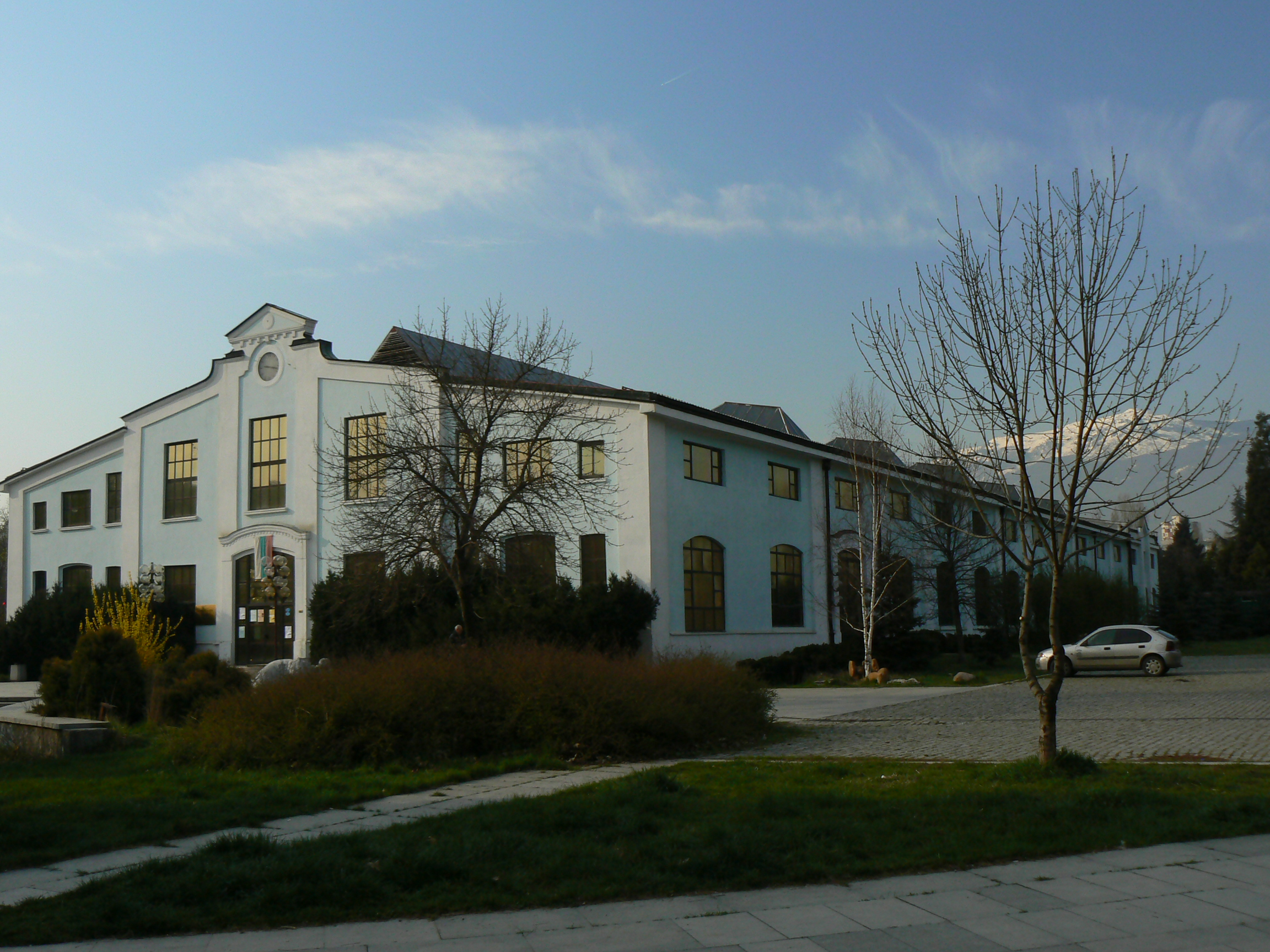 National mineralogical museum "Earth and man", with Vitosha mountain in the rear. Sofia, Bulgaria